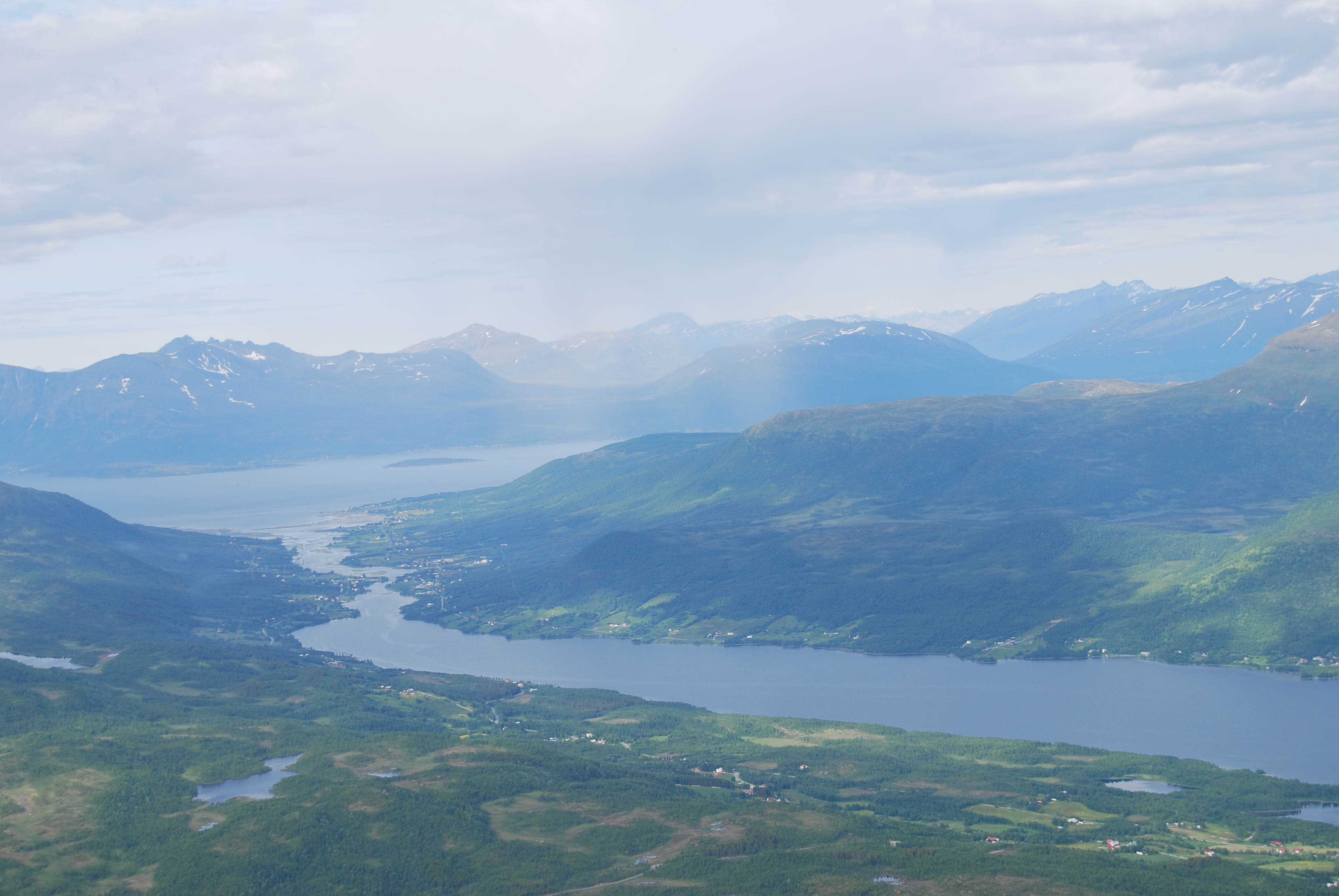 Rossfjordstraumen in Rossfjordvatnet lake, Lenvik, Norway.